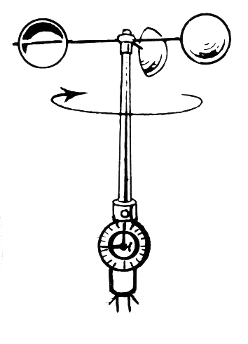 line art drawing of an anemometer.